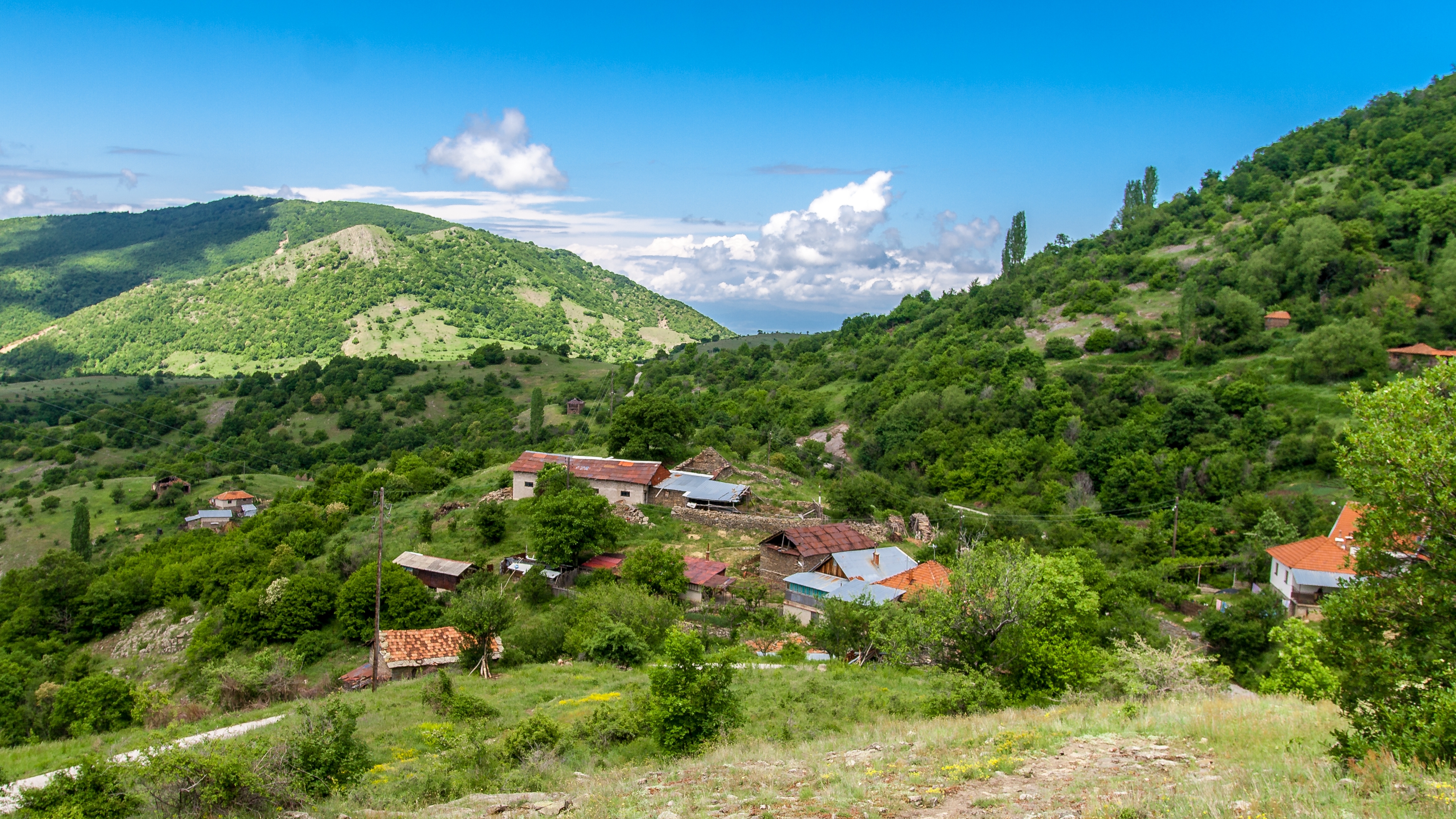 Panoramic photo of the village Blizanci